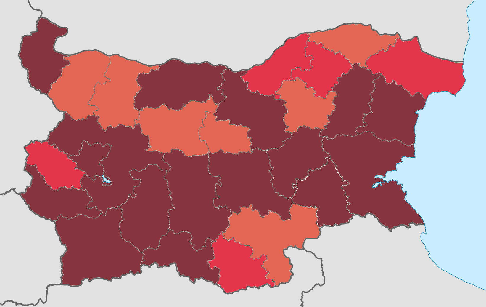 Map of the outbreak in Bulgaria Number of confirmed cases by province (as of 28 March): 0 confirmed 1–10 confirmed 11–50 confirmed 51–99 confirmed 100+ confirmed